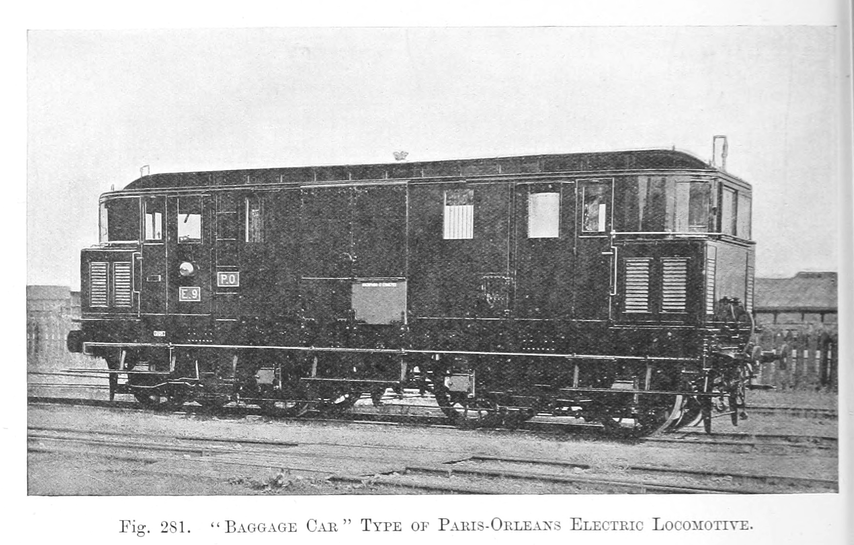 see image title - first number is figure or diagram number. See list of illustrations in source for page number in source - relevent text content is near to image in the source